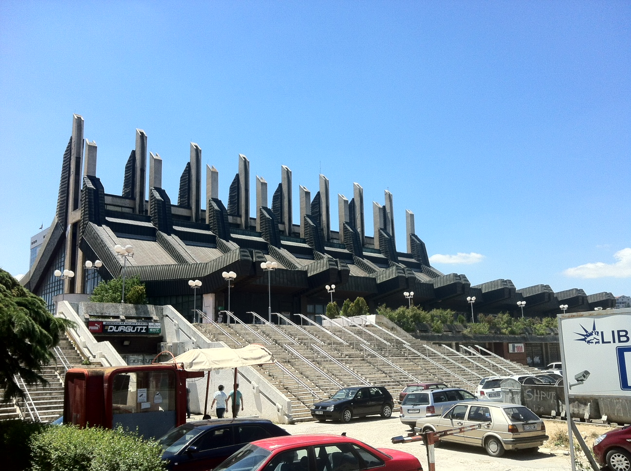 Palace